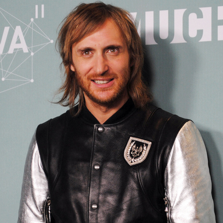 David Guetta at the 2011 MuchMusic Video Awards